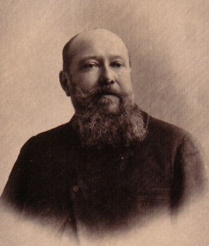 French writer and poet Armand Silvestre (1837-1901)